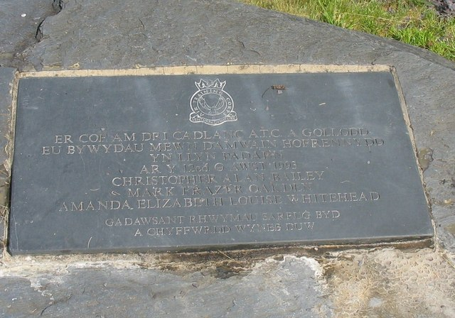 Memorial to three Air Cadets lost in the Westland Wessex crash of 1993 On the 12th August, 1933 a metal failure in the tail rotor of a Wessex helicopter from RAF Valley led to the craft plunging into Llyn Padarn with the loss of the lives of three Air Cadet passengers.